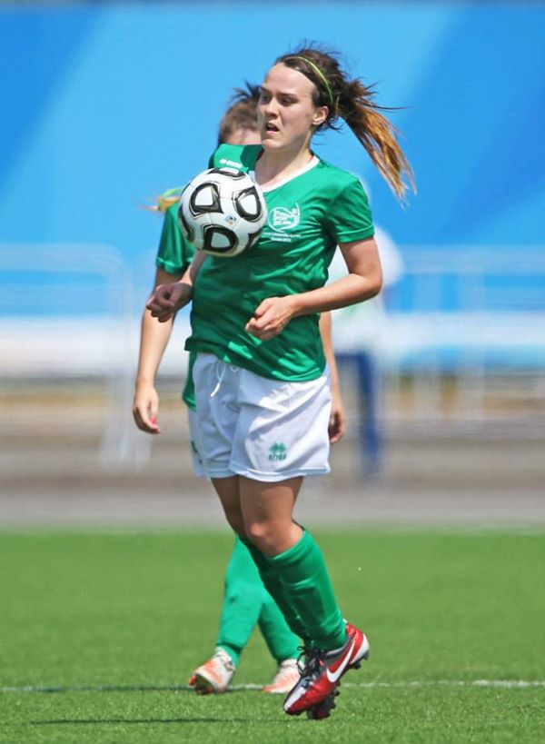 Ciara Grant representing Ireland at the 2013 World University Games in Kazan.